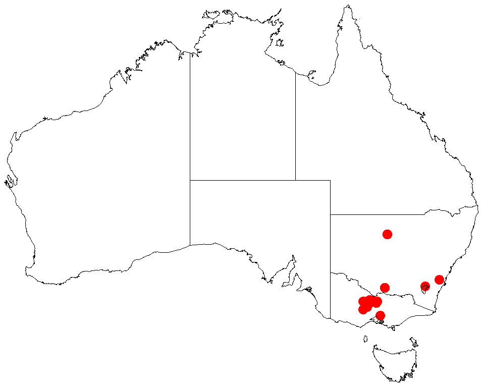 Acacia williamsonii occurrence data from Australasia Virtual Herbarium downloaded from on 8 December 2018